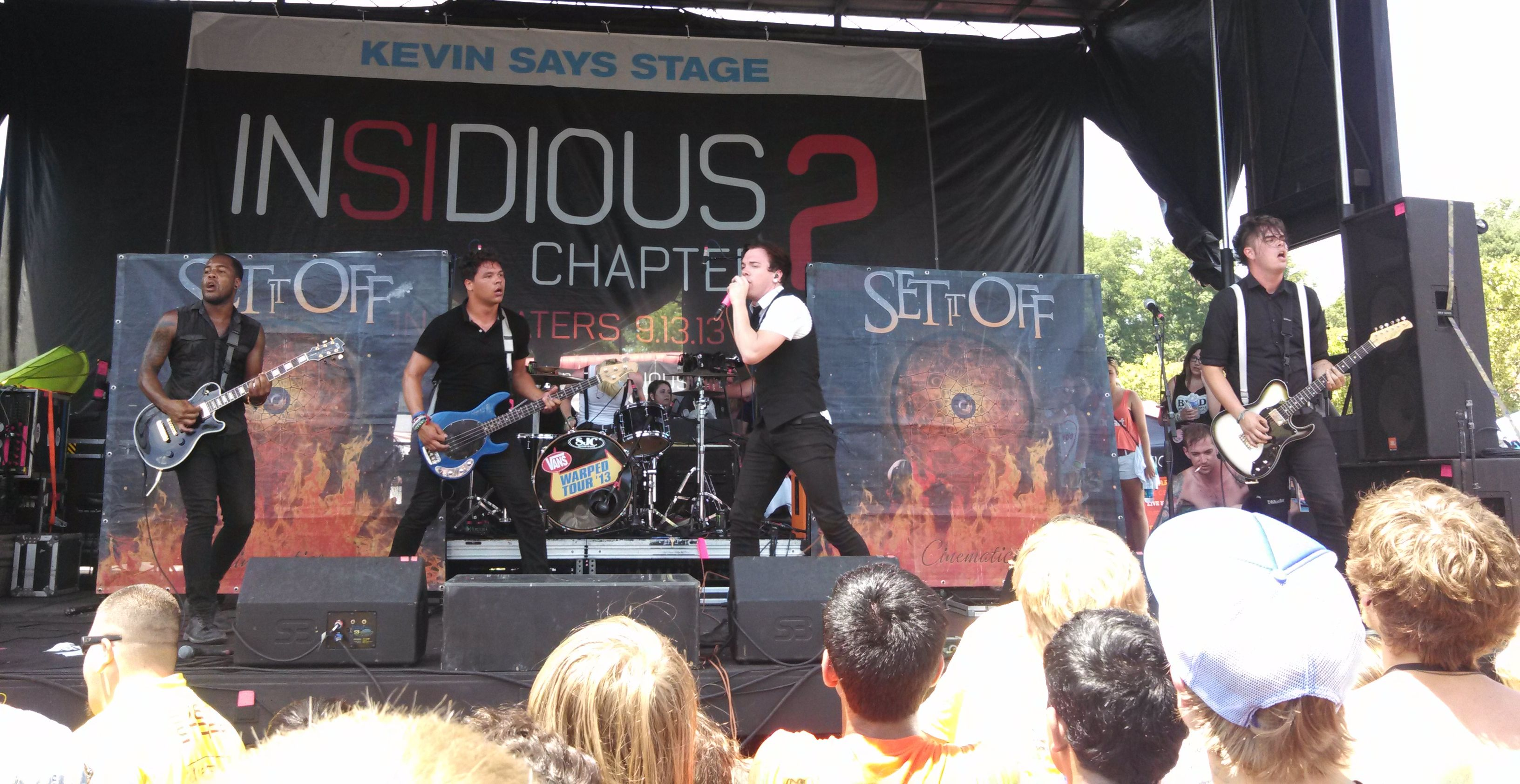 Set It Off playing the Kevin Says stage at the Vans Warped Tour in Holmdel, NJ. I took this photo myself.